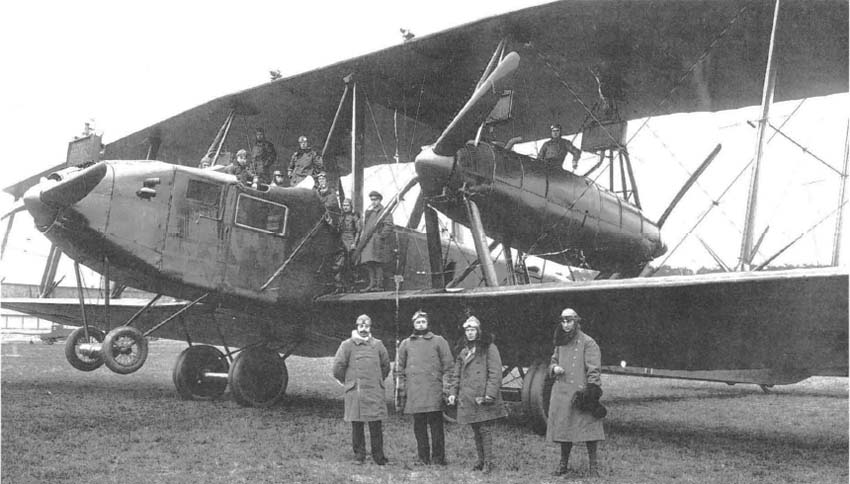 Photo of Zeppelin-Staaken R.XIV WW1 aircraft samf4u, 3.jpg